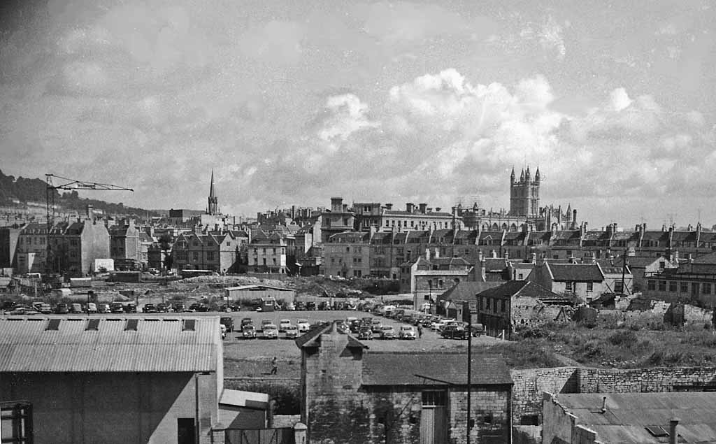 Bath: panorama from railway just west of Station. View northward, across Bristol Road, River Avon and a large car park on what appears to be a wartime bomb-site - now no doubt redeveloped, to the Abbey and the Colonnades. [Further description welcomed].